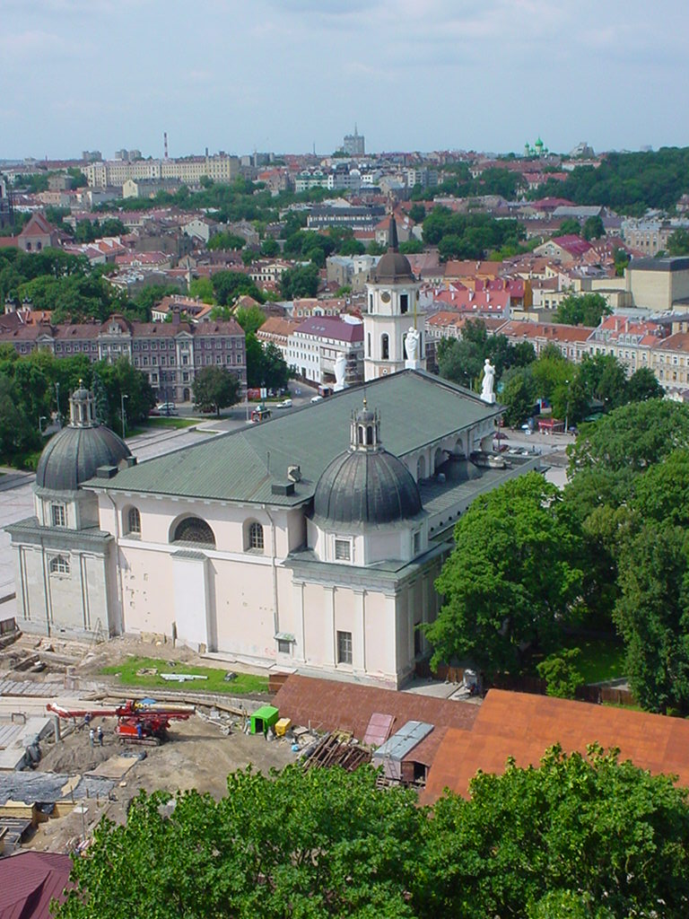 Palace of the Grand Dukes in 2002